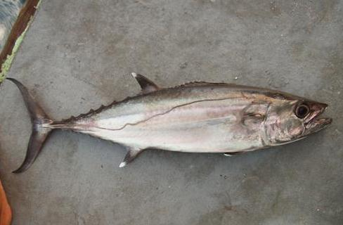 Gymnosarda unicolor collected in Laamu Atoll, Maldives.